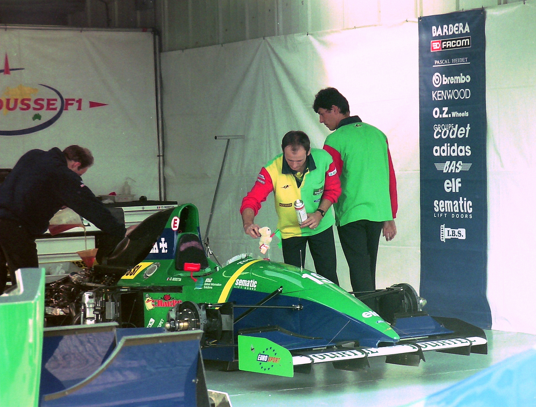 Larrousse pits at the 1994 British Grand Prix